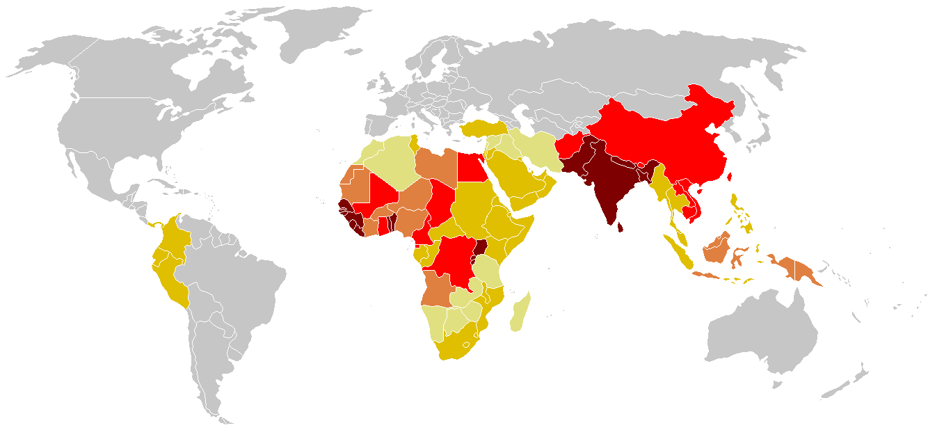 Countries with reported cases of Tetanos